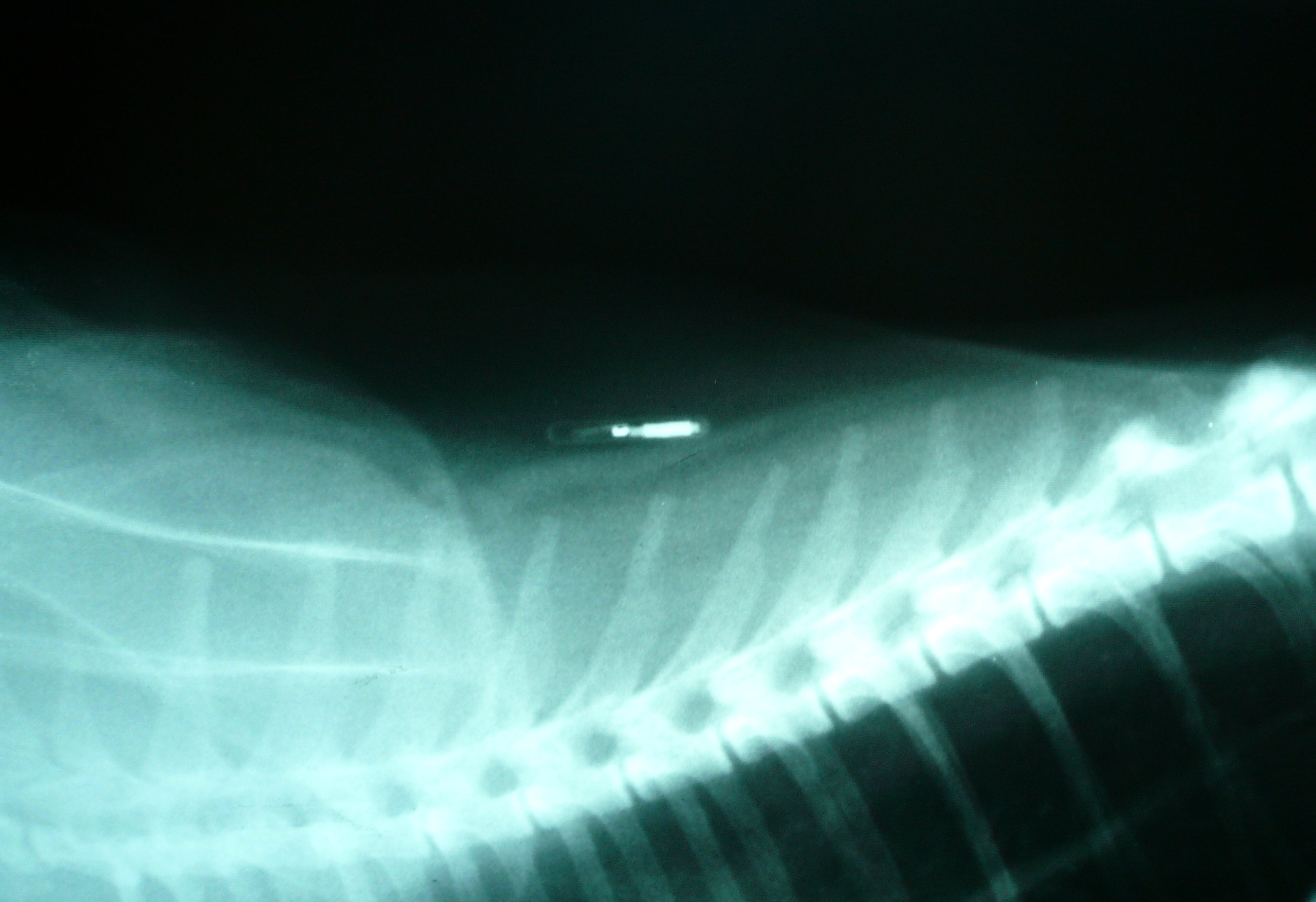 Radiograph of a cat with an identifying microchip located above the spine.